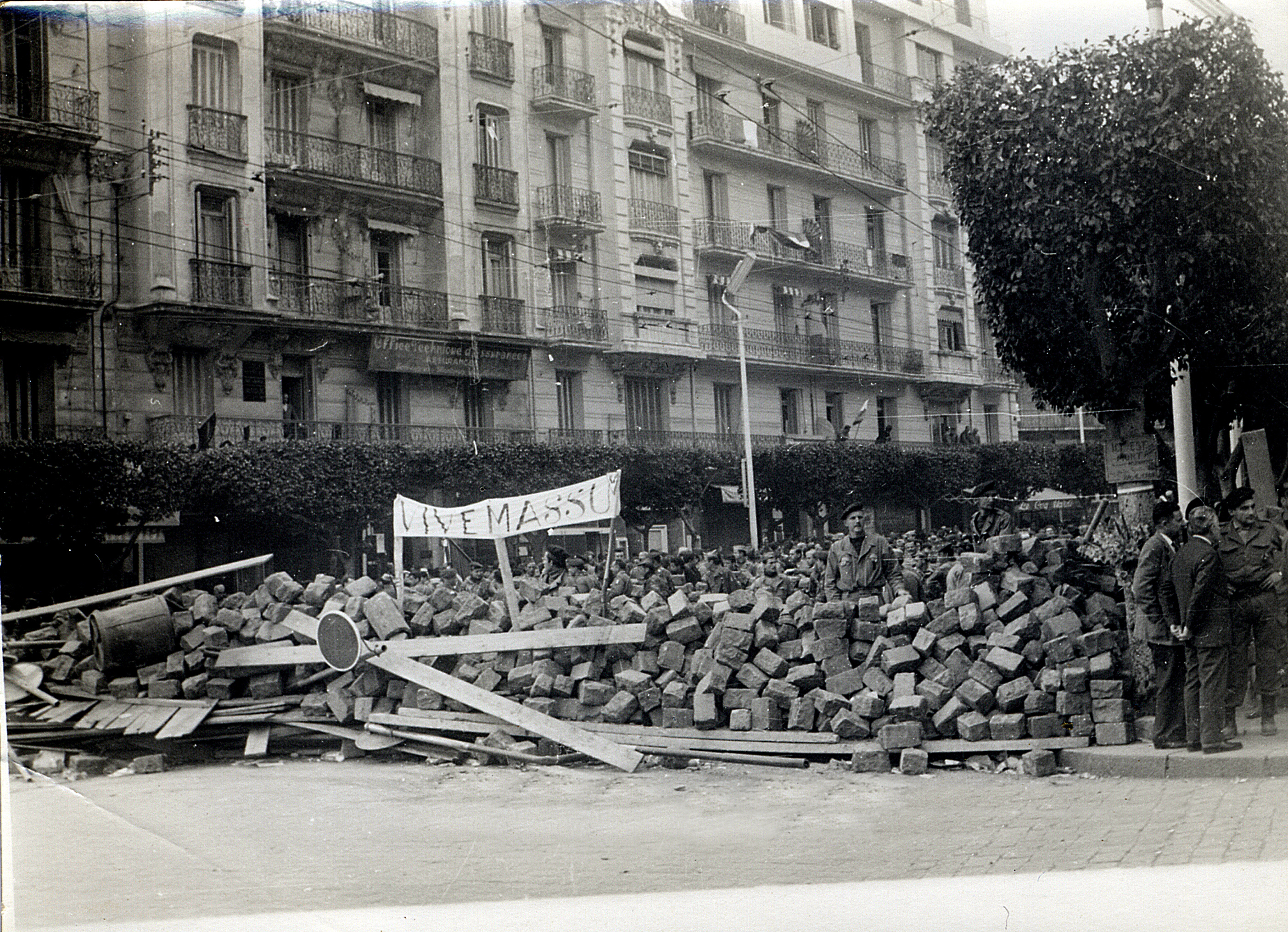 Baricades set up during the Algerian War of Independence. January 1960. Street of Algier.